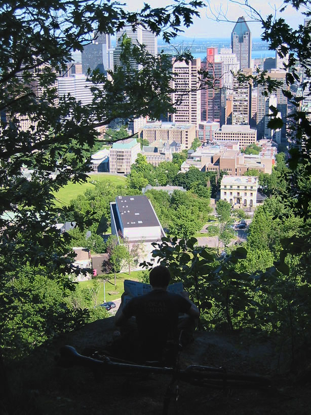 Nicest spot in town to read the paper. (Most of these Mount Royal views are from the "escarpment" route, not from the chalet.)